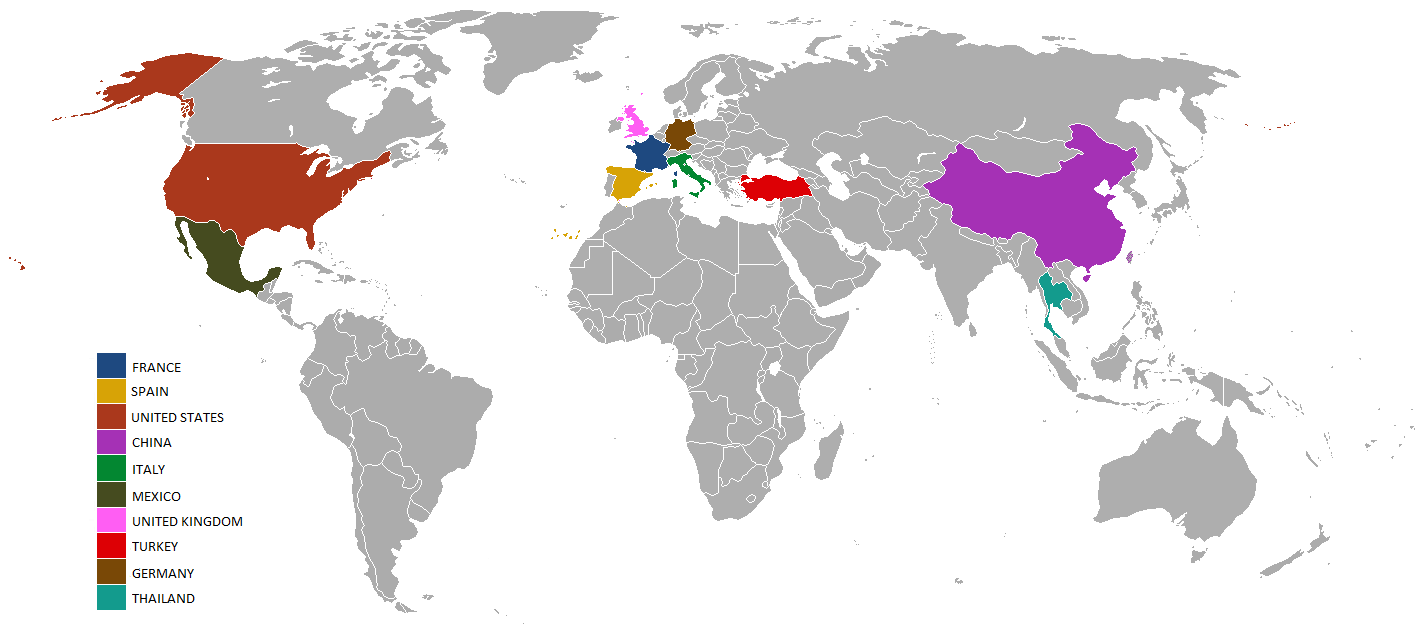 The 10 most visited countries in 2018 by World Tourism Organization report.